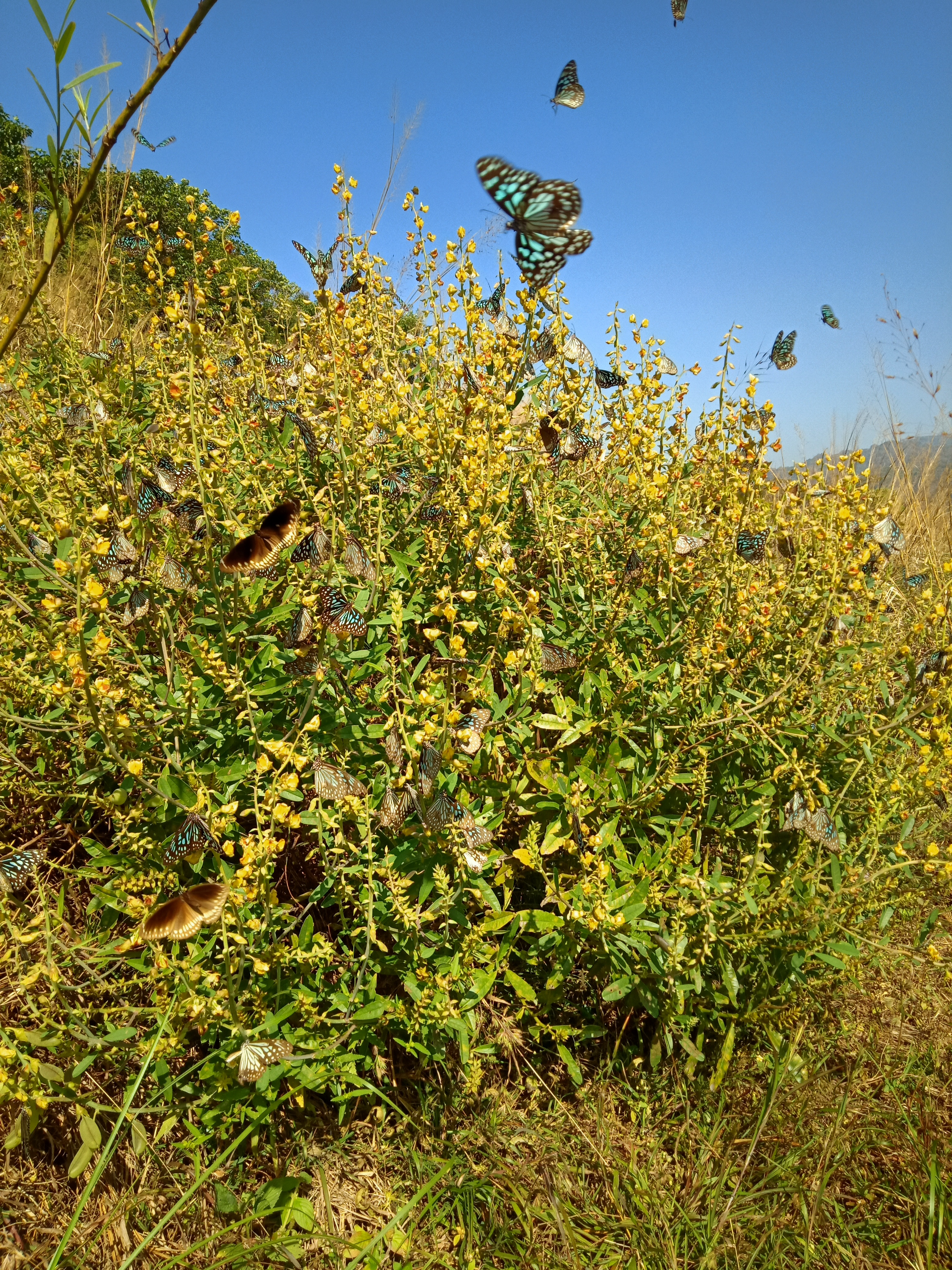 Danaiine butterflies aggregating on Crotalaria, Wynaad